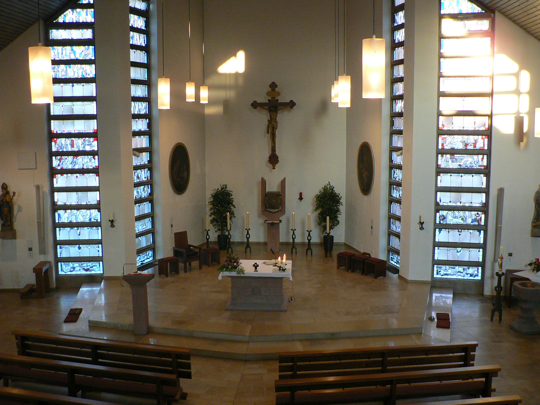 Interior of St. Nicholas' church in Germete (Germany). Taken from the organ loft.